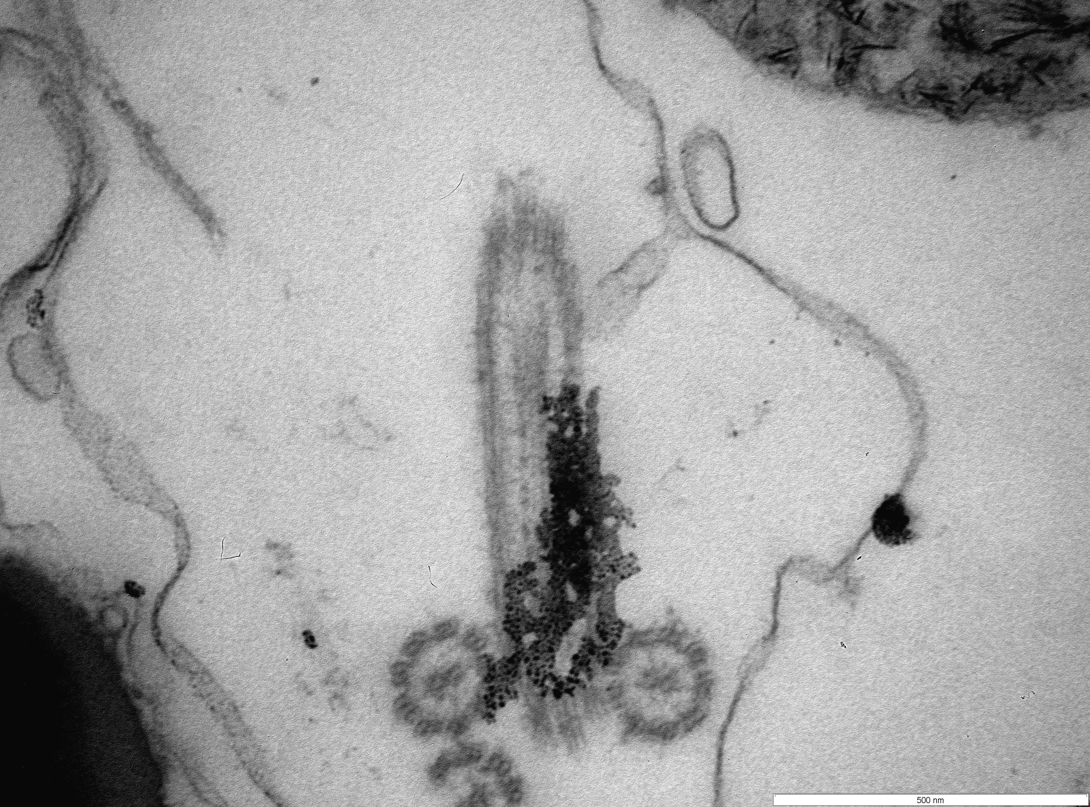 This is an electron microscopy image of centrioles from common shore crab hepatopancreas. The magnification is 100,000x, see bar on lower right corner. In the upper right corner you can see a mitochondrion loaded with calcium, exhibiting the needle-like precipitates.